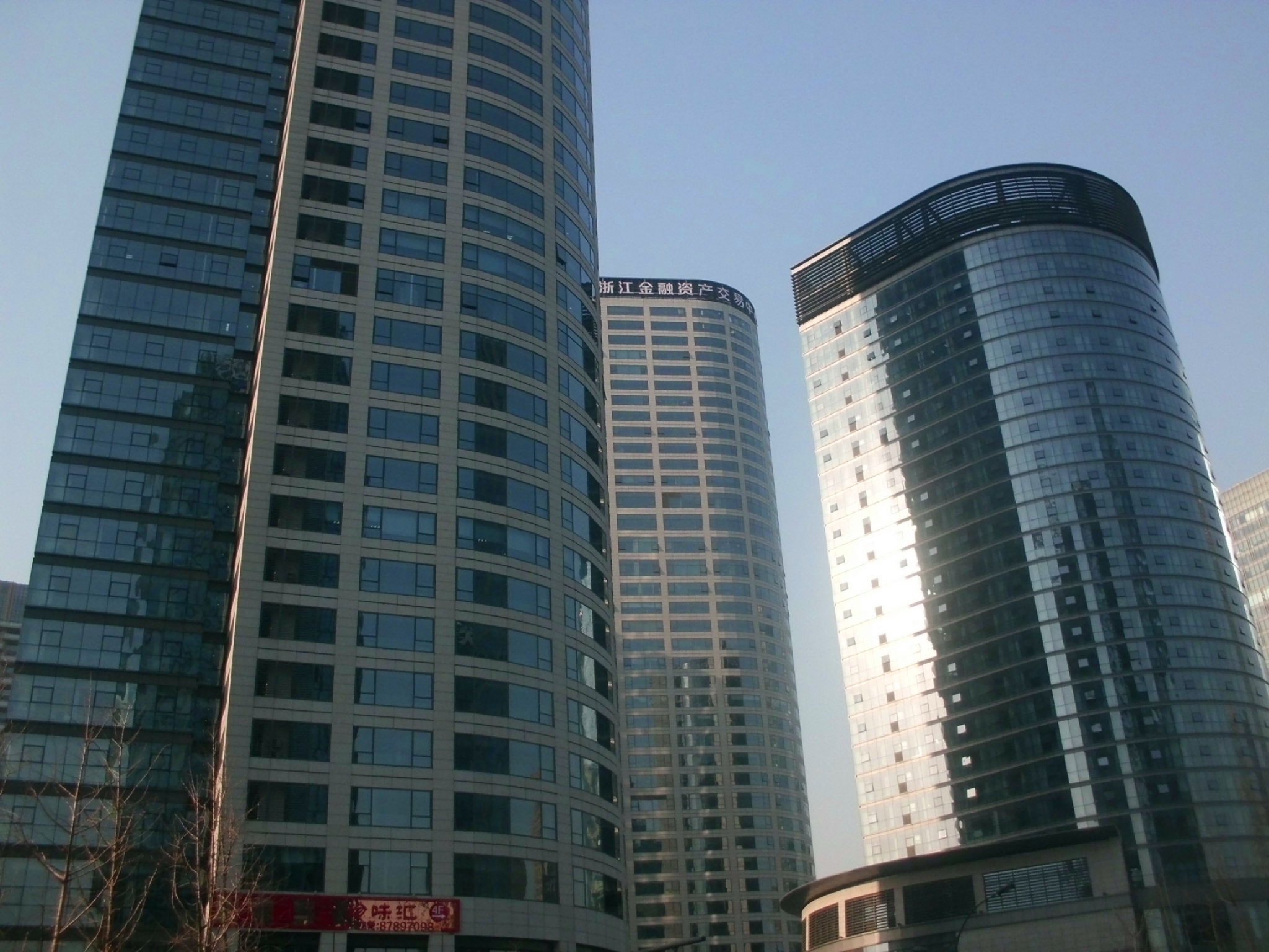 Qianjiang guoji shidai plaza